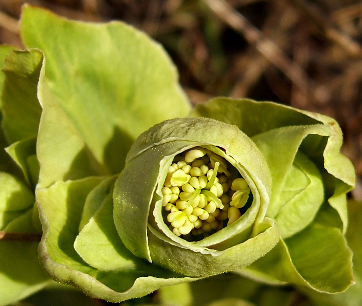 Stinking Hellebore Helleborus foetidus, at 850/900 m, Swabian Alb, Baden-Württemberg, Germany. Wild species, no cultivators in sight. Aragonés: Ixarruego